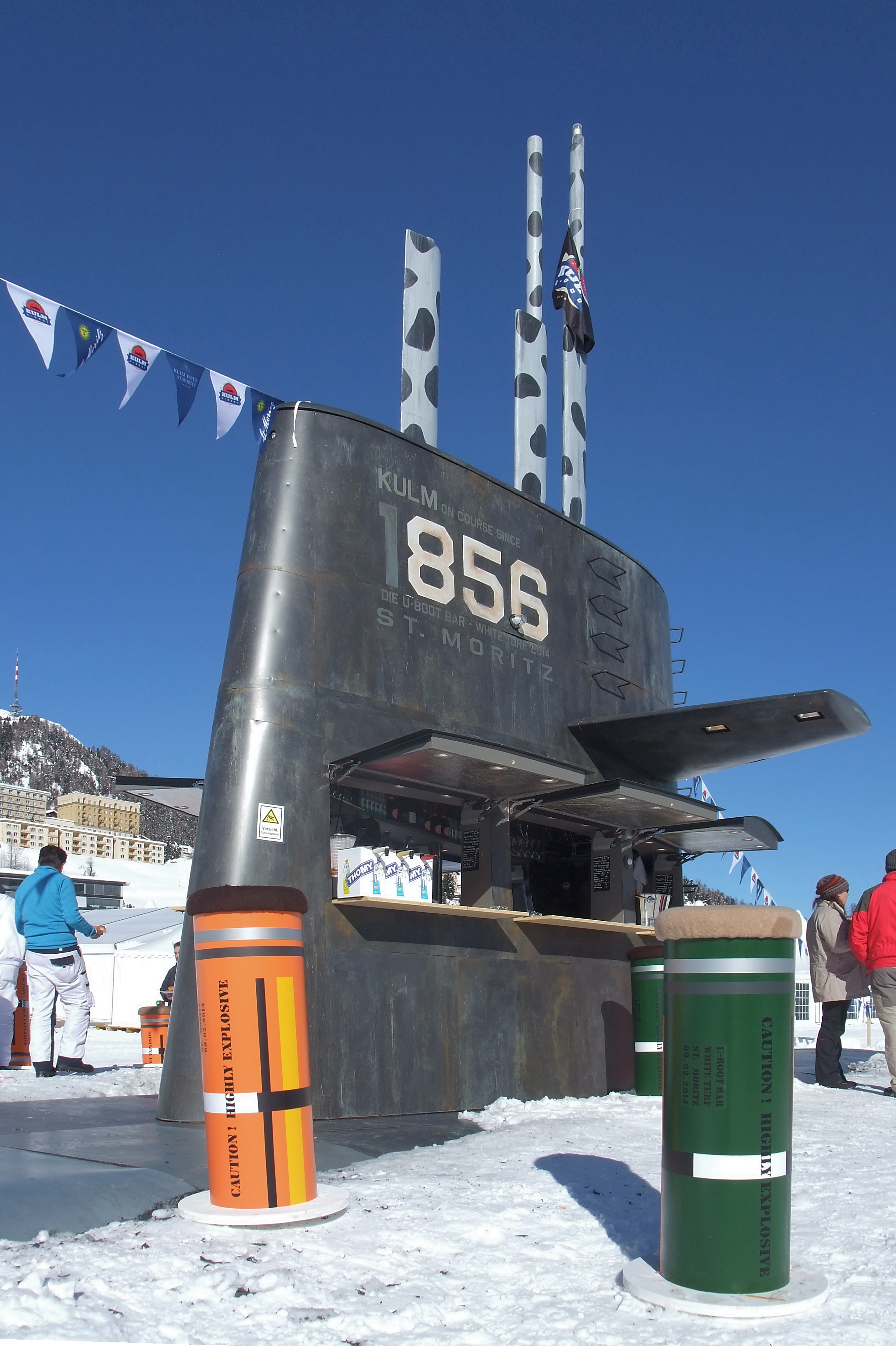 There was actually a German U-boat in WWII with this number, but that is no reproduction. The number is based on the year 1856, when the Kulm Hotel opened its doors for the first time. The real U-856 was a 750-ton submarine commanded by Oberleutnant Friedrich Wittenberg. It sunk on 7 April 1944. Lake St.Moritz, Switzerland, Feb 12, 2014.